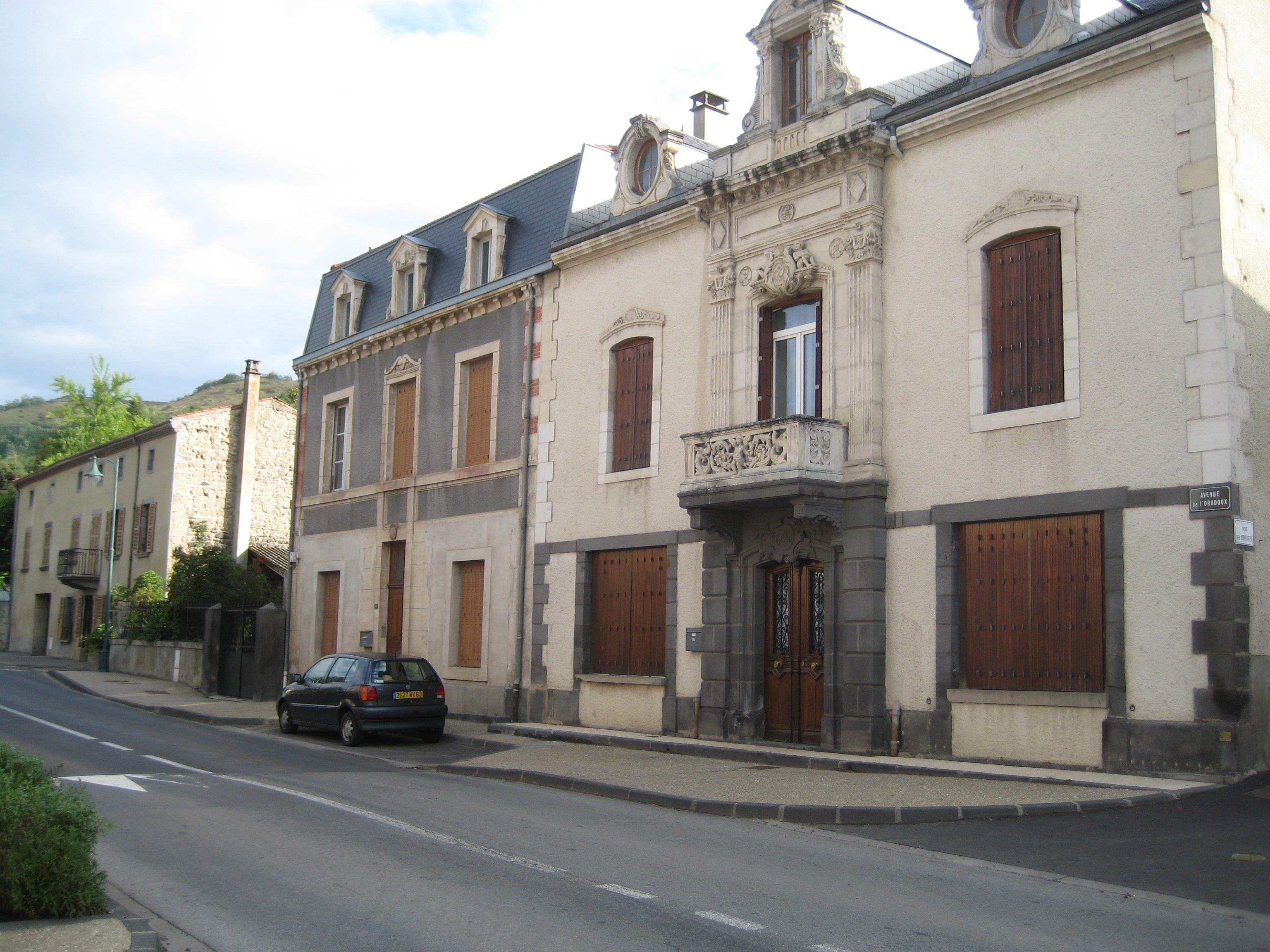 main street in Perrier